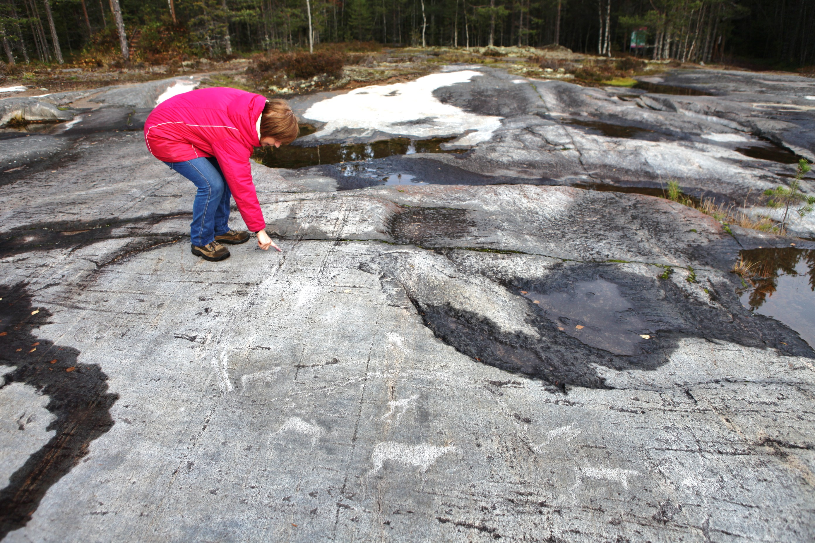 Petroglyphs in Zalavruga, archaeologist Nadezhda Lobanova, Karelian Research Centre